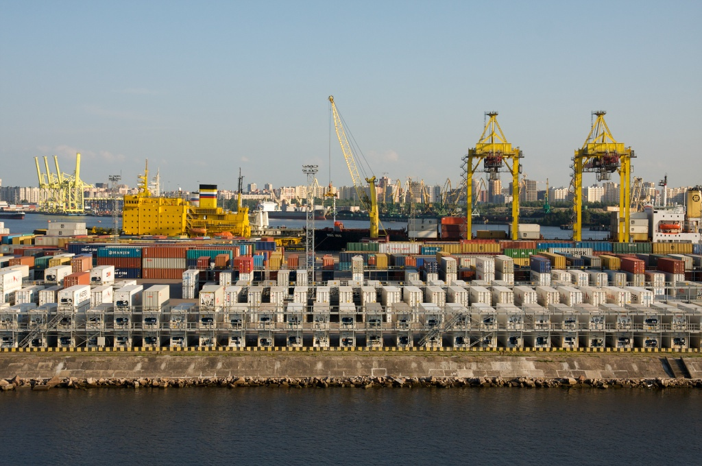 Containers in the harbour of Saint Petersburg, Russia.